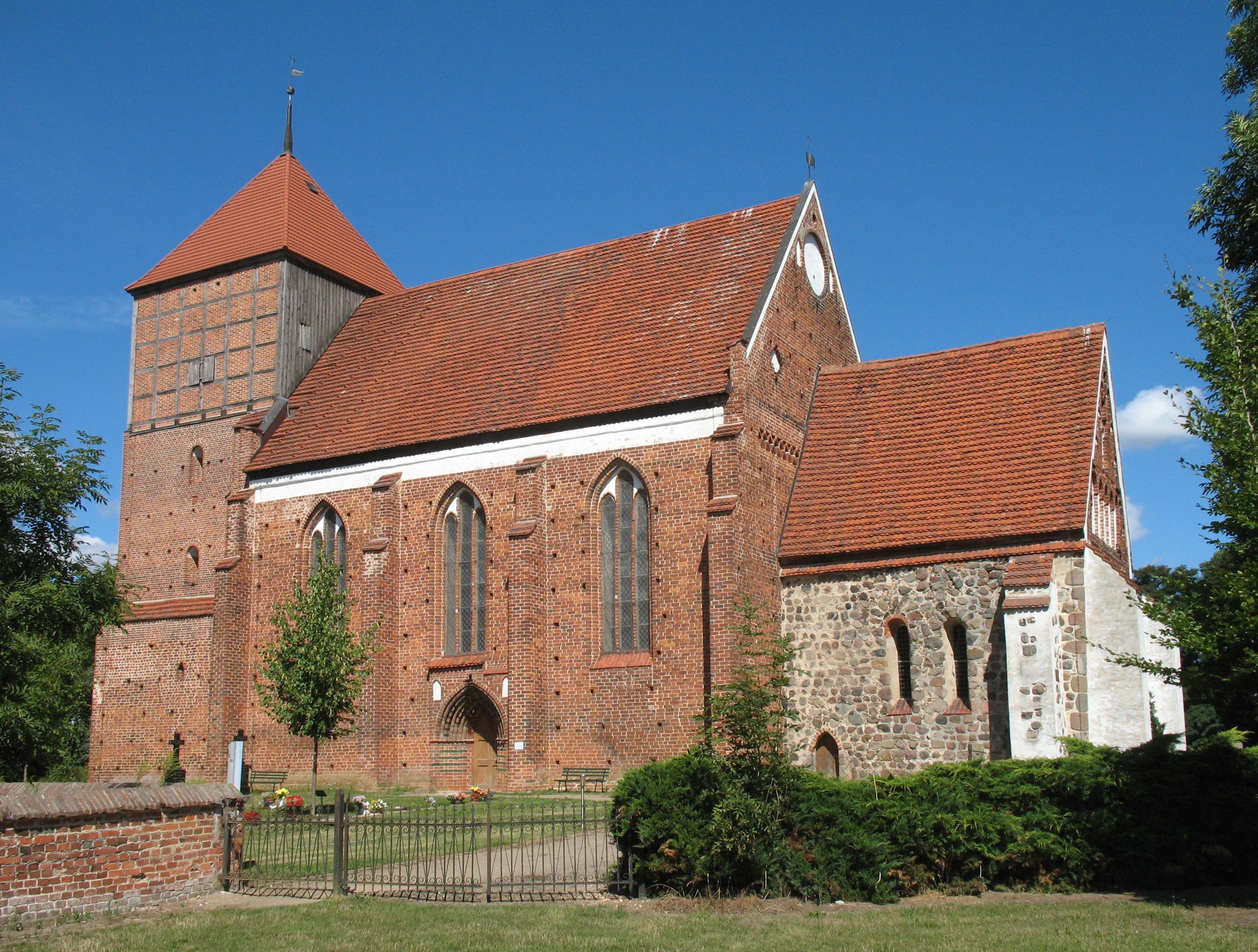 Church in Mestlin in Mecklenburg-Western Pomerania, Germany